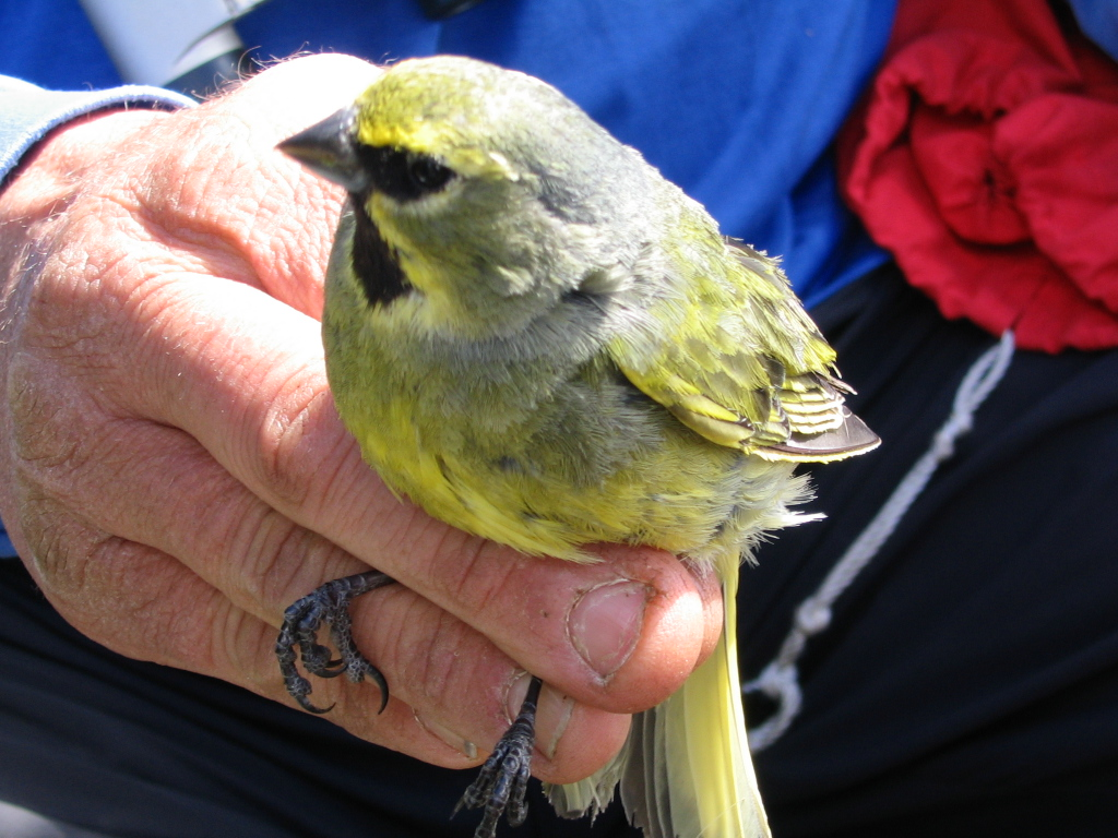 Male yellow-bridled finch, caught and banded at Cerro Robalo, Isla Navarino, Chile